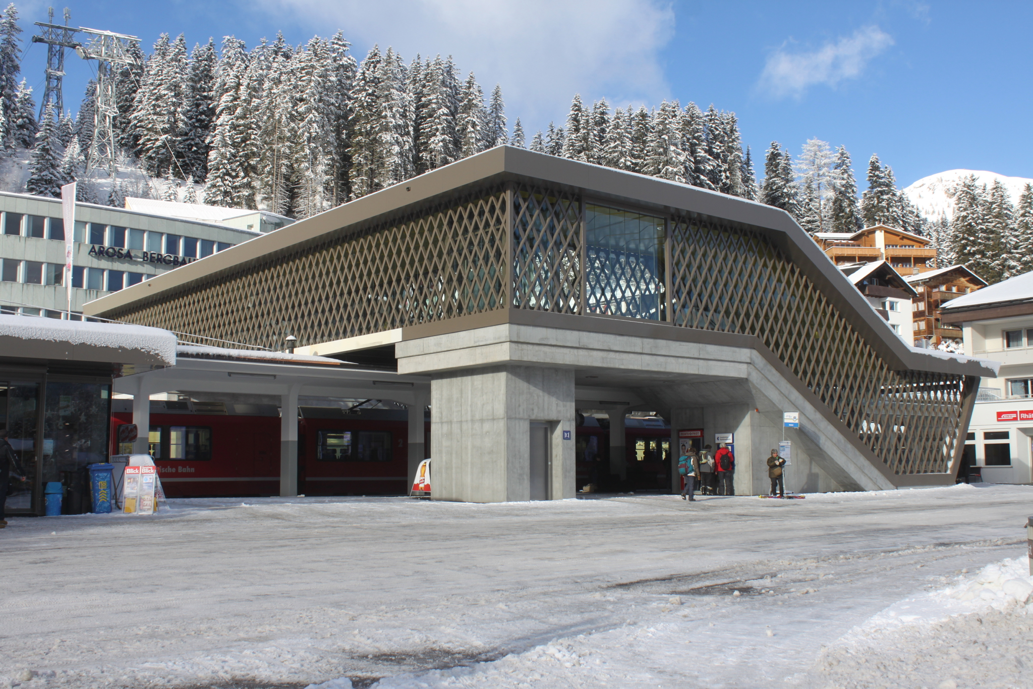 Arosa train station.